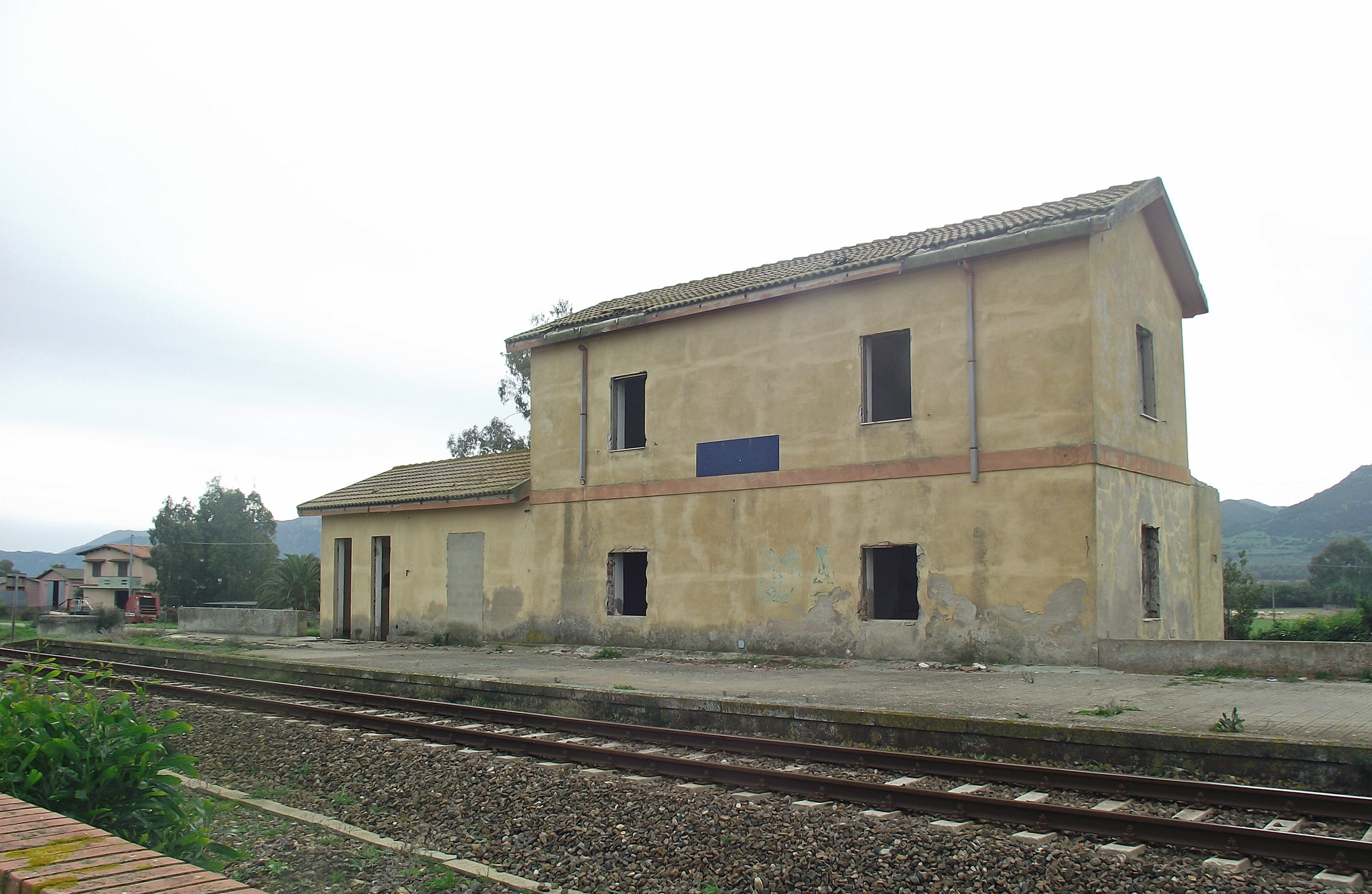 The former railway station of Musei, in Sardinia, Italy, along the Decimomannu-Iglesias railway